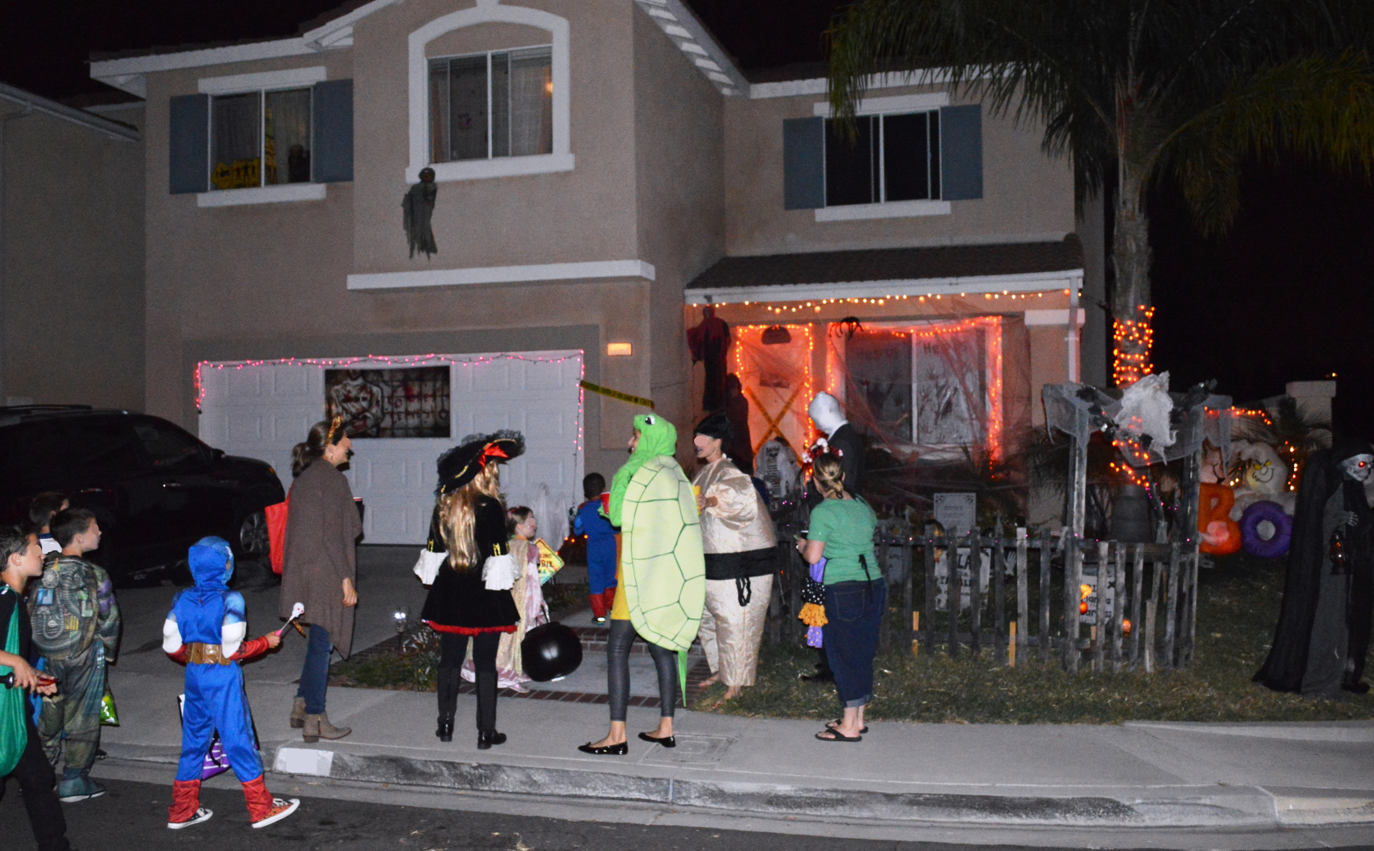 Trick-or-treaters in front of a haunted house on Halloween 2014 - Rancho Santa Margarita, California.